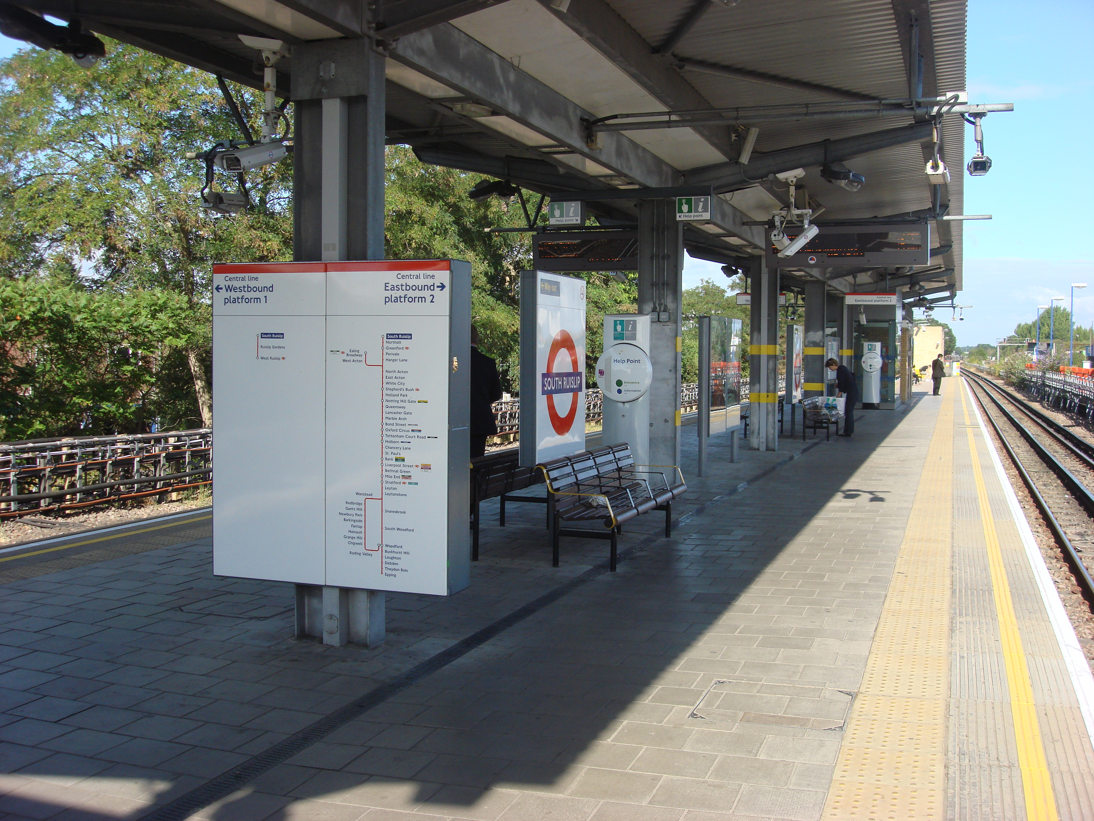 South Ruislip station.